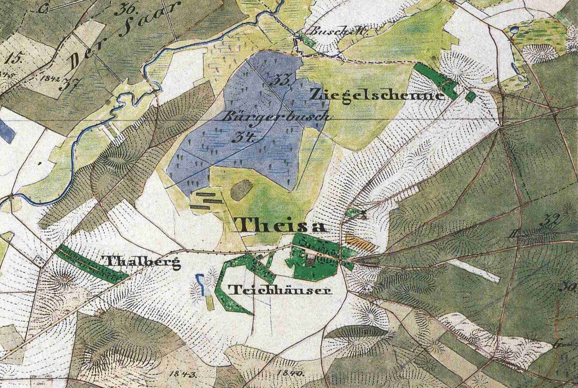 Theisa, Lkr. Elbe-Elster, Brandenburg, Germany, detail from the Urmesstischblatt Sheet 4446 Liebenwerda, drawn in 1847